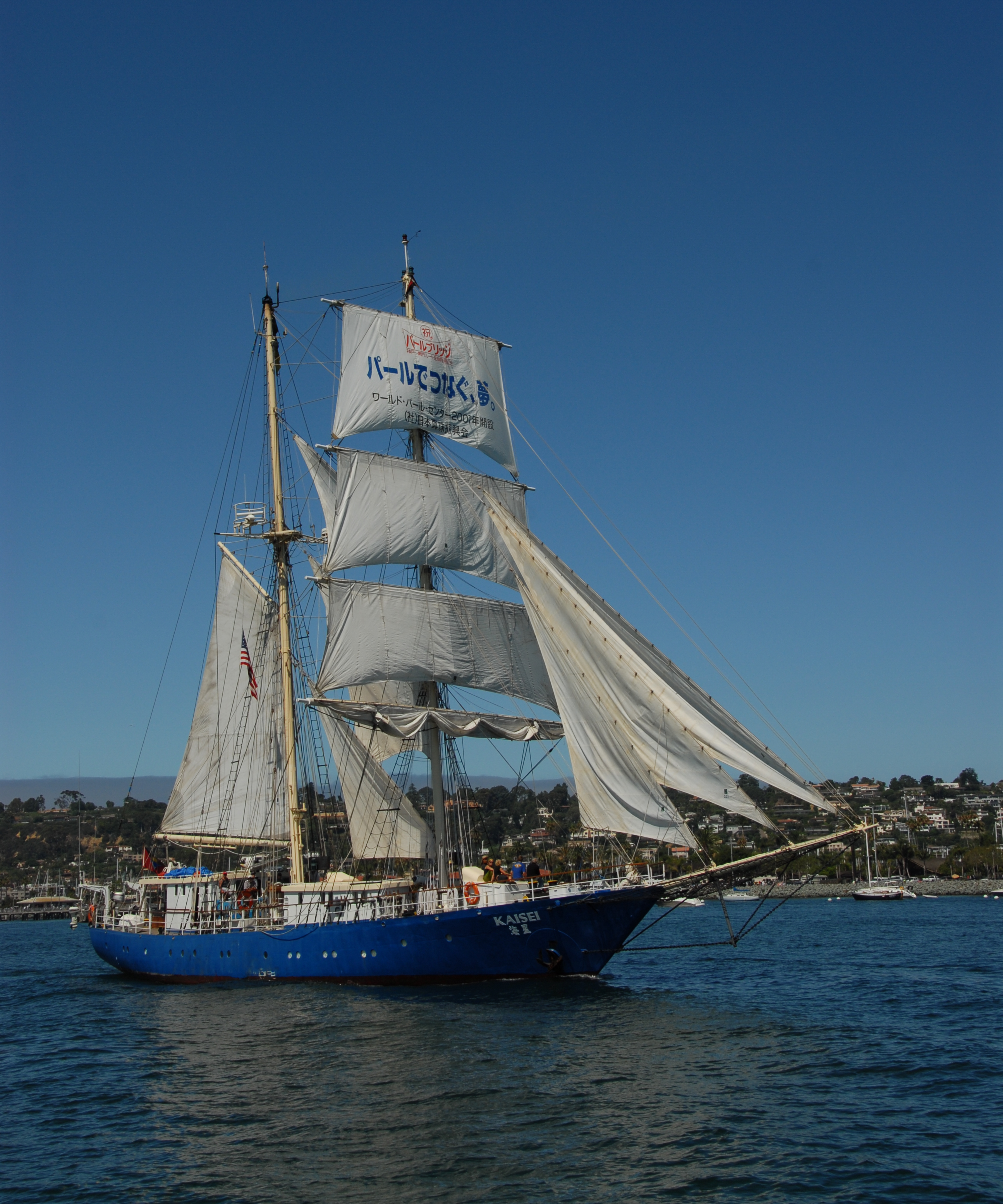 STS Kaisei